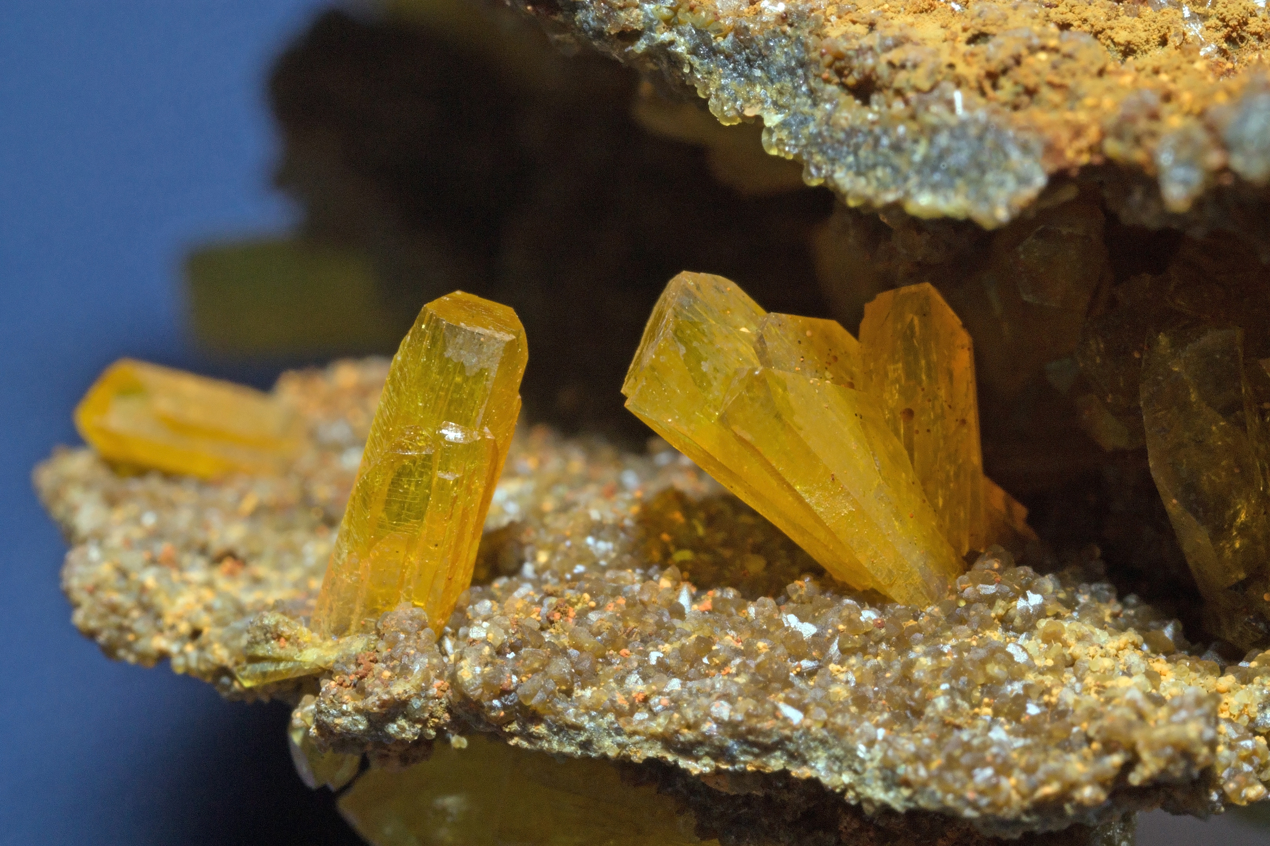 legrandite, limonite : Ojuela Mine, Mapimi, Mun. de Mapimi, Durango, Mexico